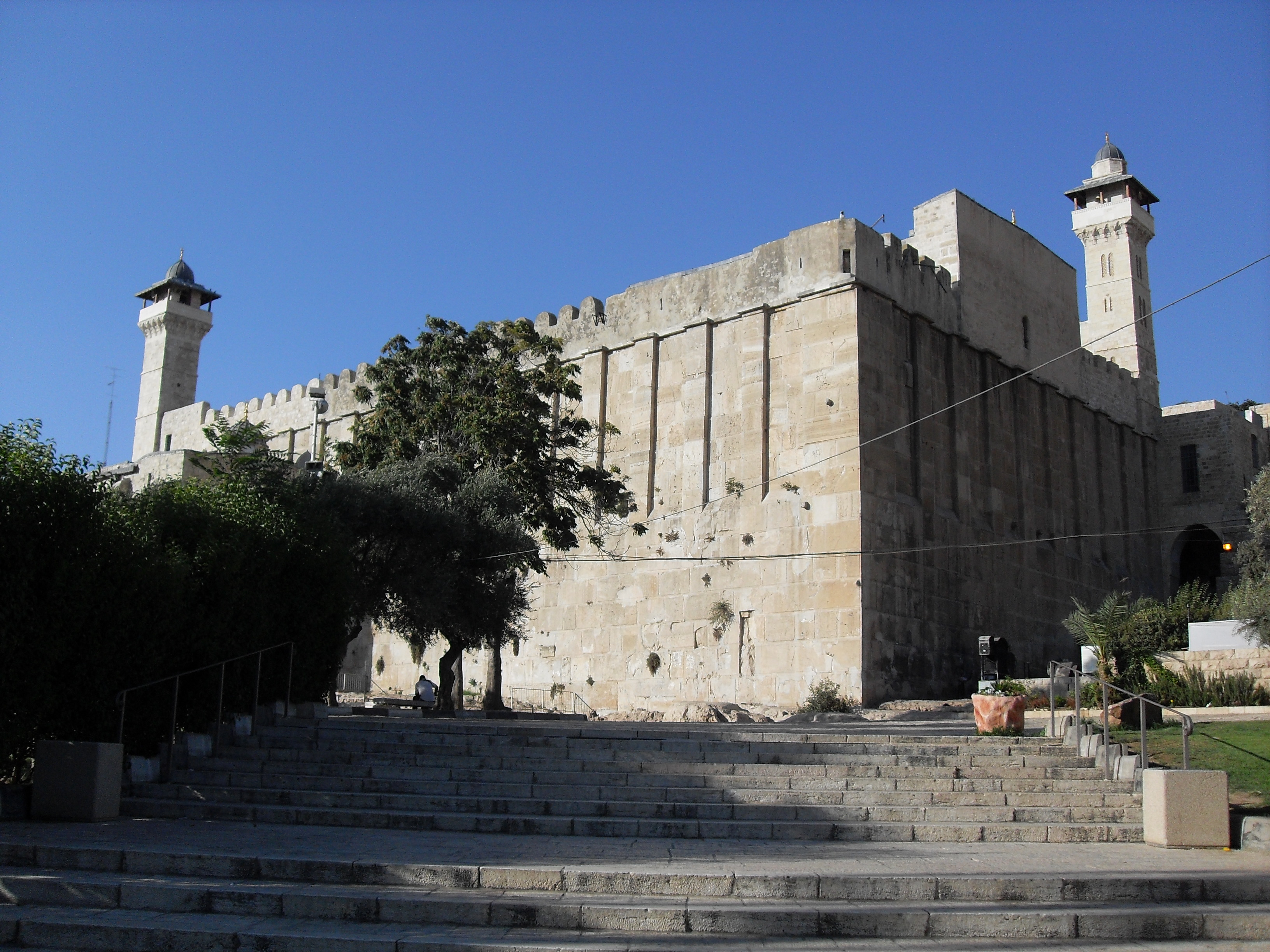 Palestine, Hebron, Cave of the Patriarchs from the south.